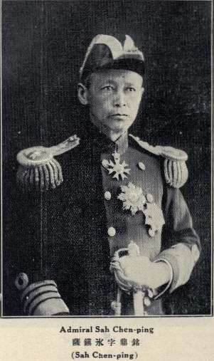 Sa Zhenbing(1859 -1952)